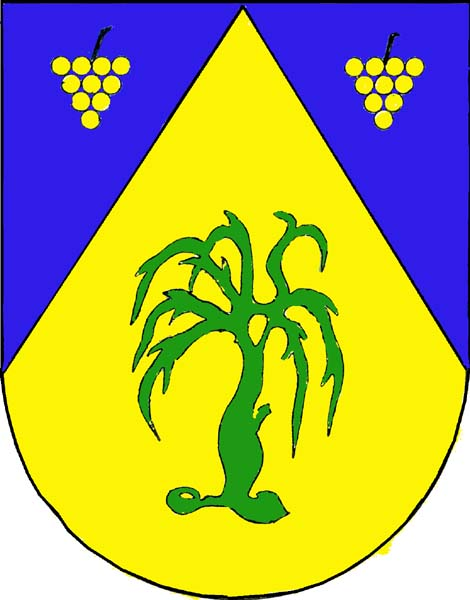 Municipal coat of arms of Vrbice village, Břeclav District, Czech Republic.